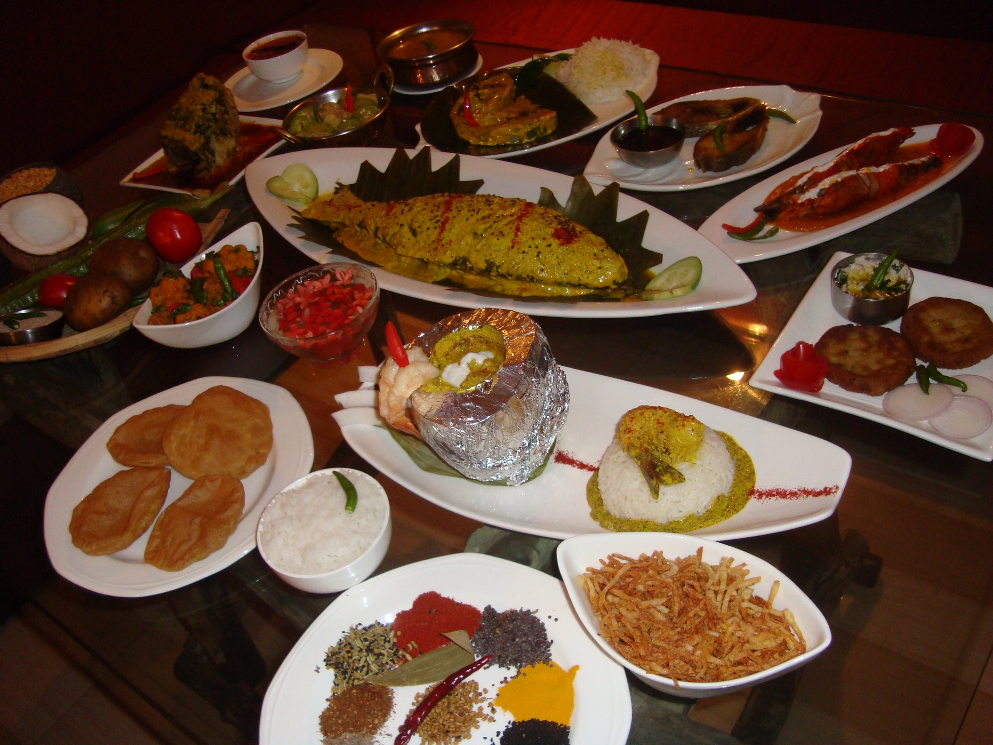 A Bengali Platter